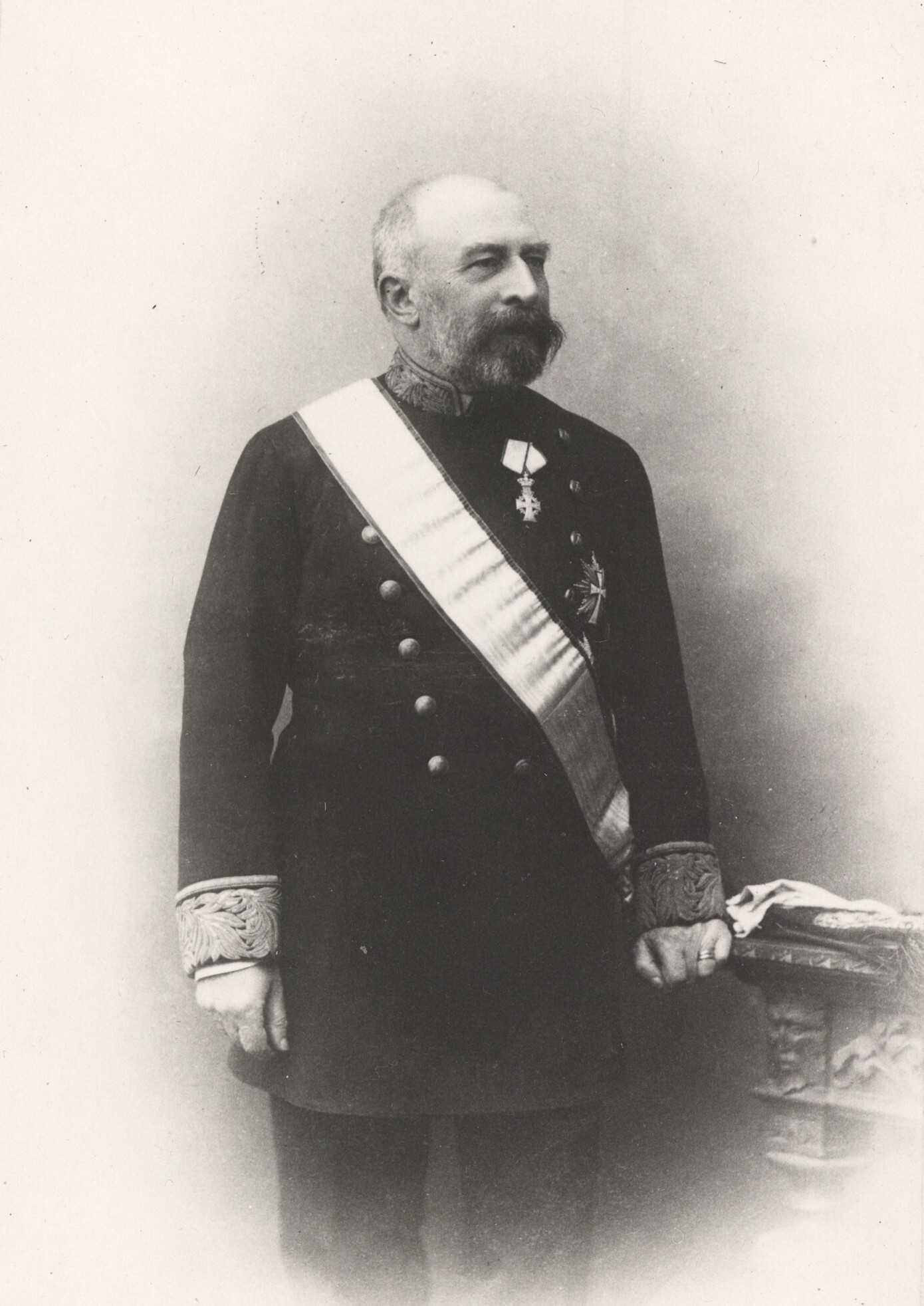 Hugo Egmont Hørring (1842-1909), Danish jurist and prime minister